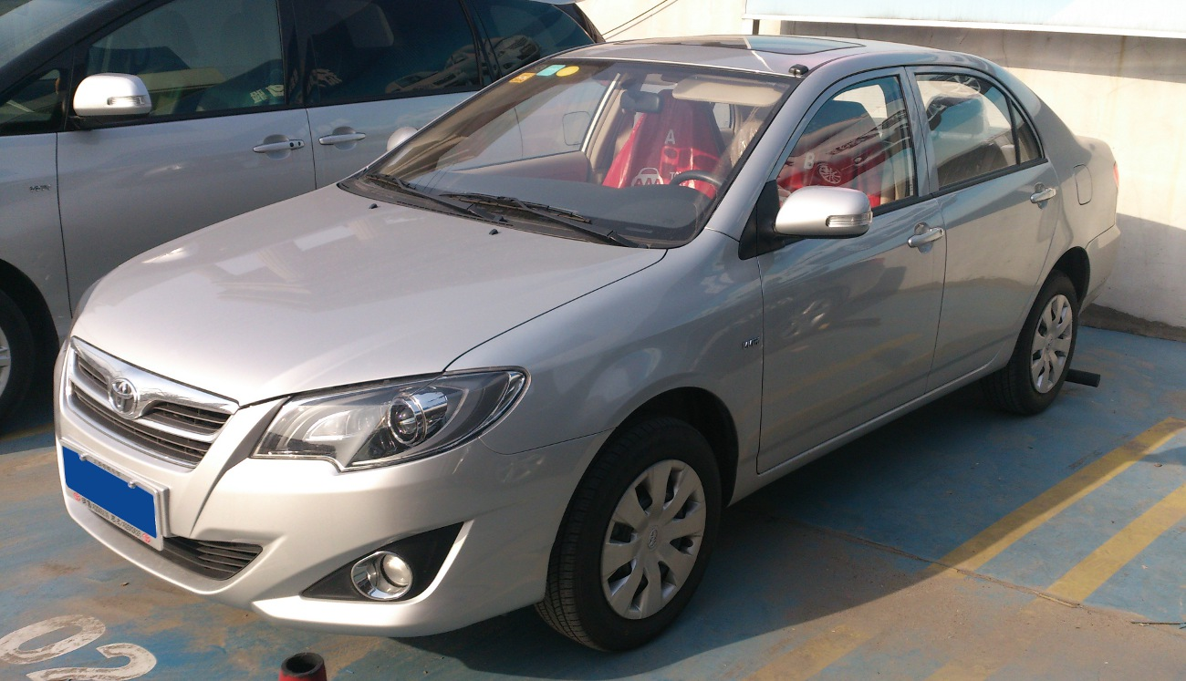 Toyota Corolla EX facelift II photographed in Shanghai, China.